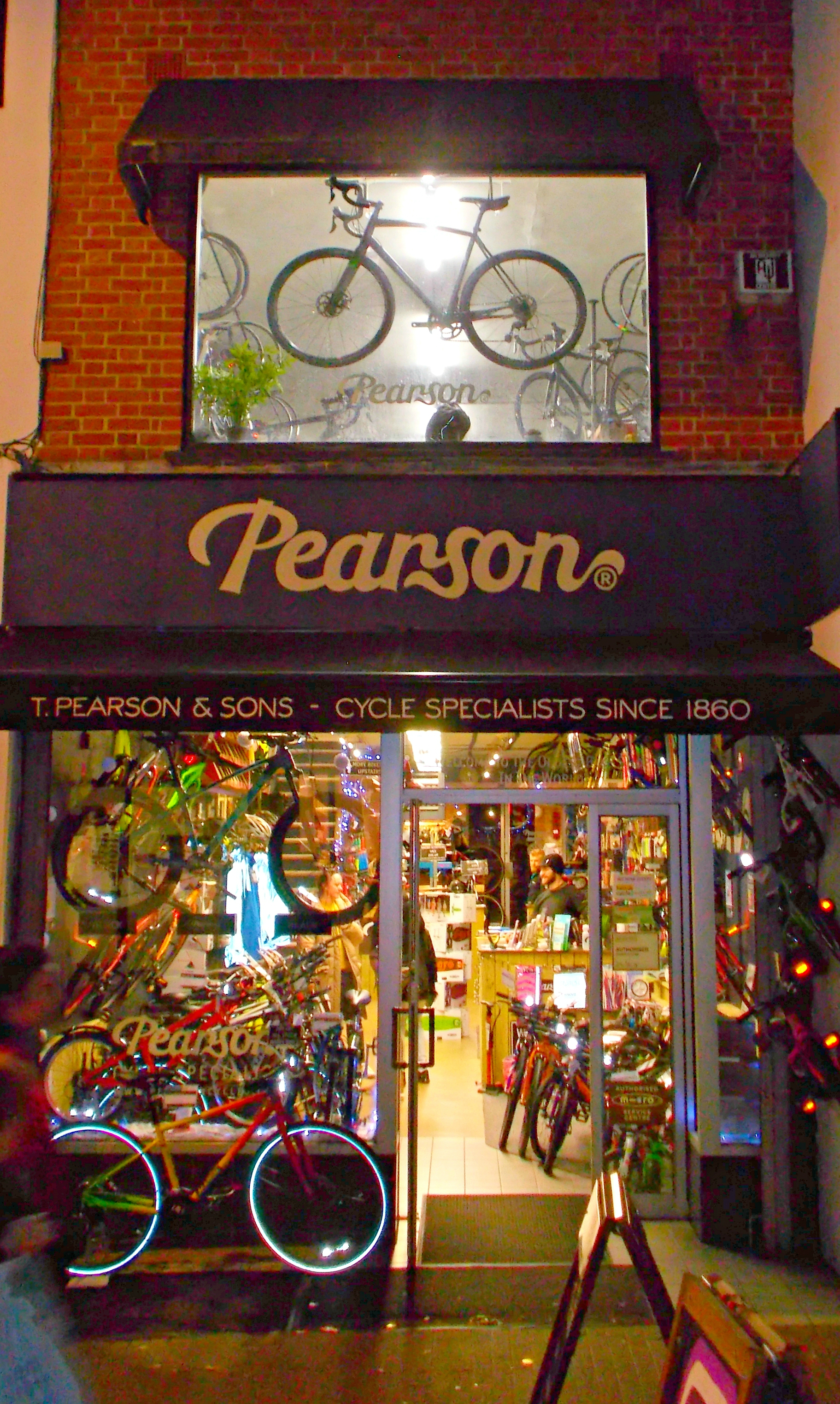 This cycle shop is the oldest in the world. It is an occupant of Sutton's retail district. Sutton is a town in Greater London, 10 miles from the West End.